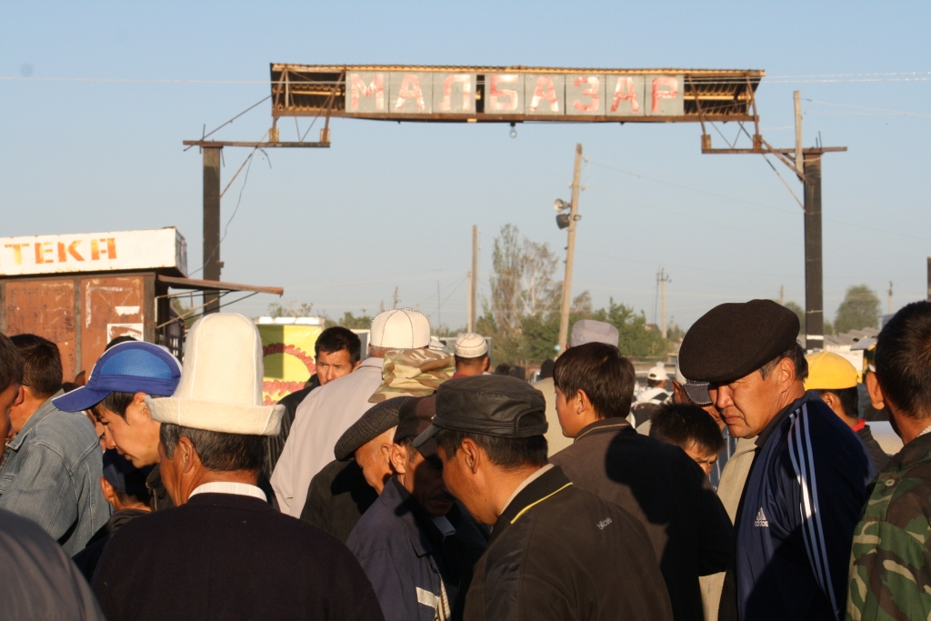 Cattle Bazaar in Karakol, Kyrgyzstan